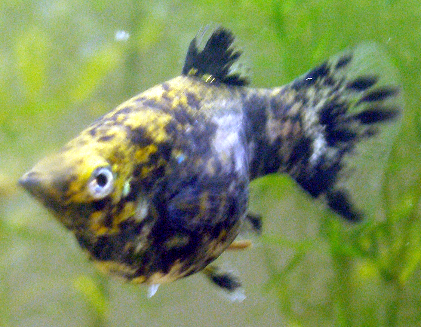 Female Mormor Molly